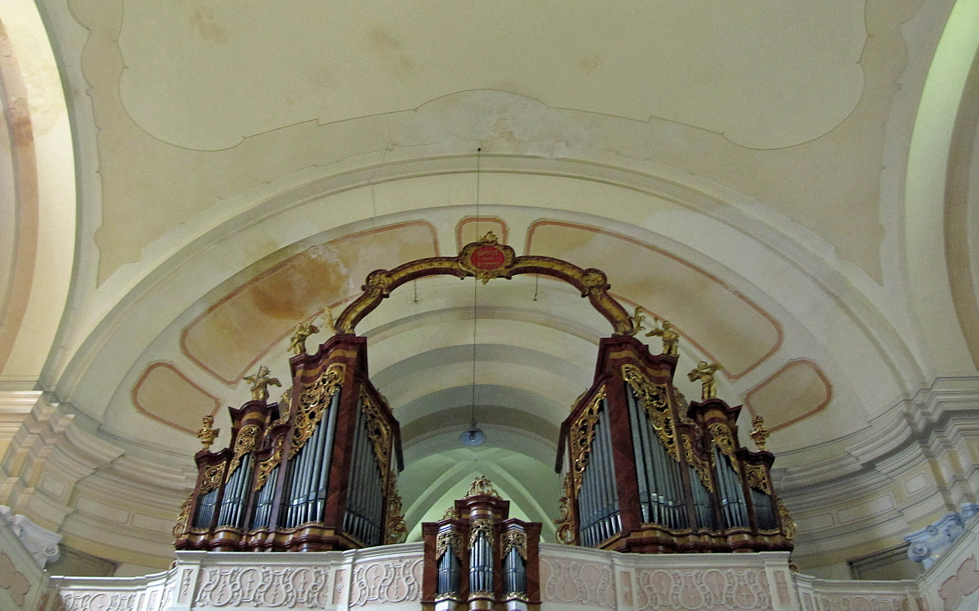 Staré Křečany in Děčín District, Czech Republic. Interior of the church of Saint John of Nepomuk, organ.